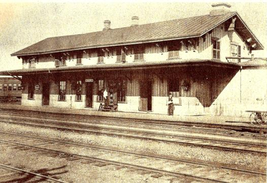 The 1848 Berlin station sometime before it was replaced in 1893